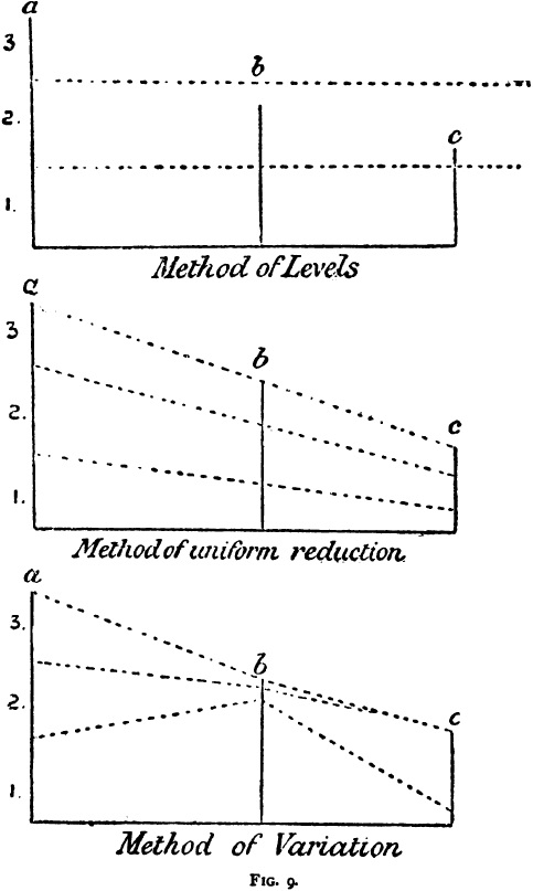 The three possible method's to explain animal behavior: the method of levels, the method of uniform reduction and the method of variation